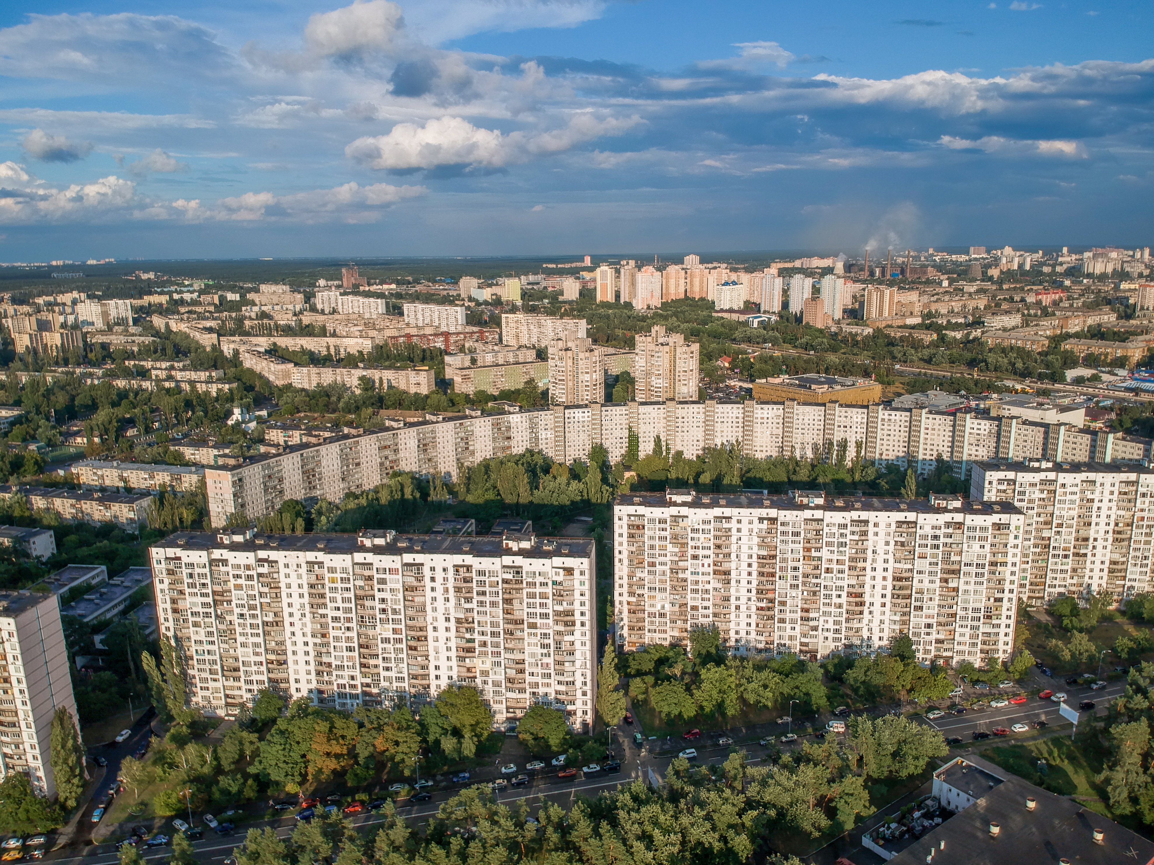 Henerala Zhmachenka Street, Kiev